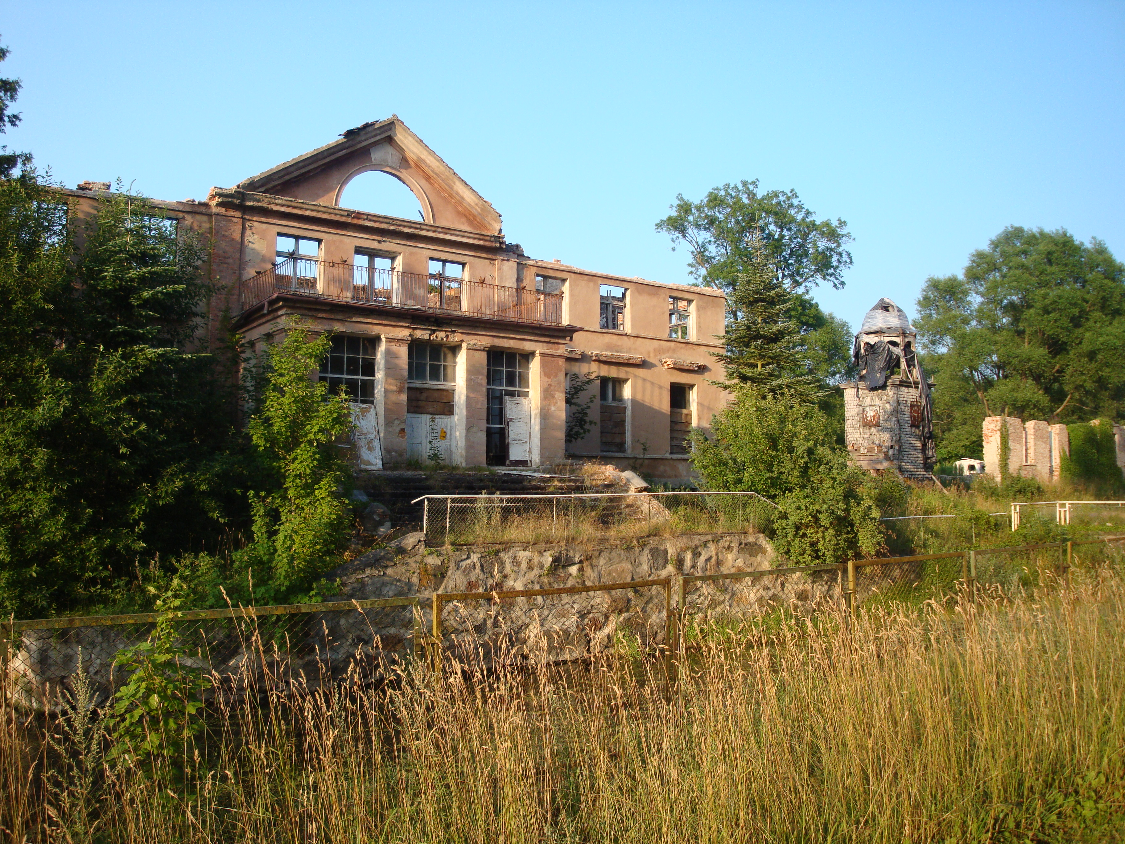 Karżniczka-village in Pomeranian Voivodeship, Poland. Ruins of palace